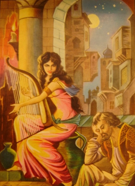 Depiction of Hafez (Khwāja Shams-ud-Dīn Muhammad Hāfez-e Shīrāzī).